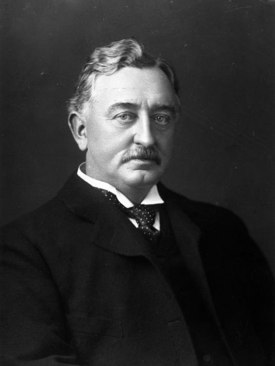 Portrait of the industrialist and politician Cecil Rhodes (1853-1902).